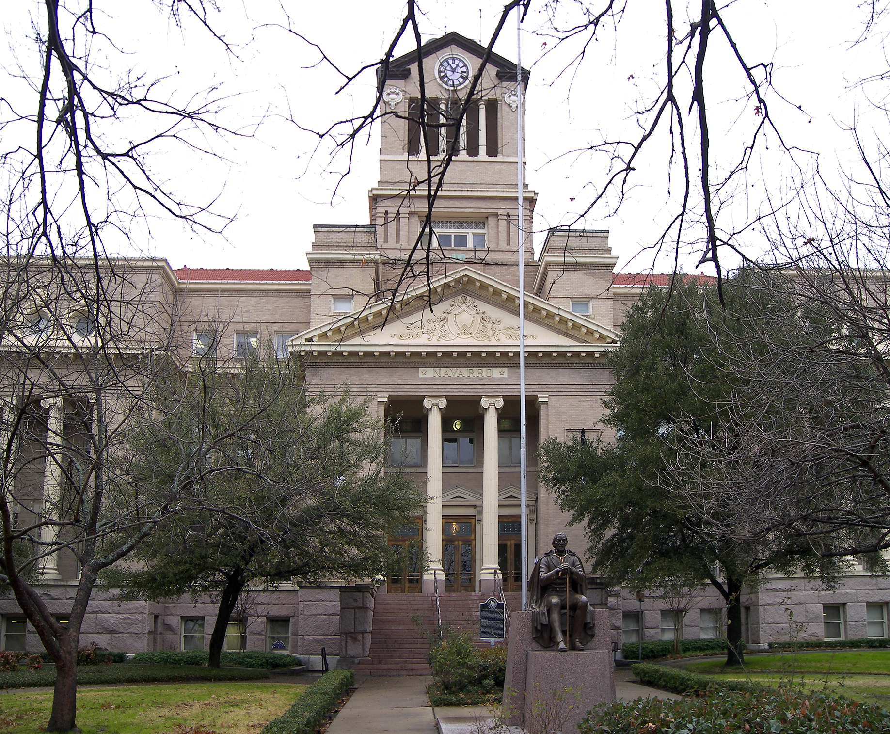 The Navarro County, Texas courthouse located at 300 W. 3rd Ave, Corsicana, Texas, United States. It was designated a Recorded Texas Historic Landmark in 1983 and listed on the National Register of Historic Places on September 10, 2004.